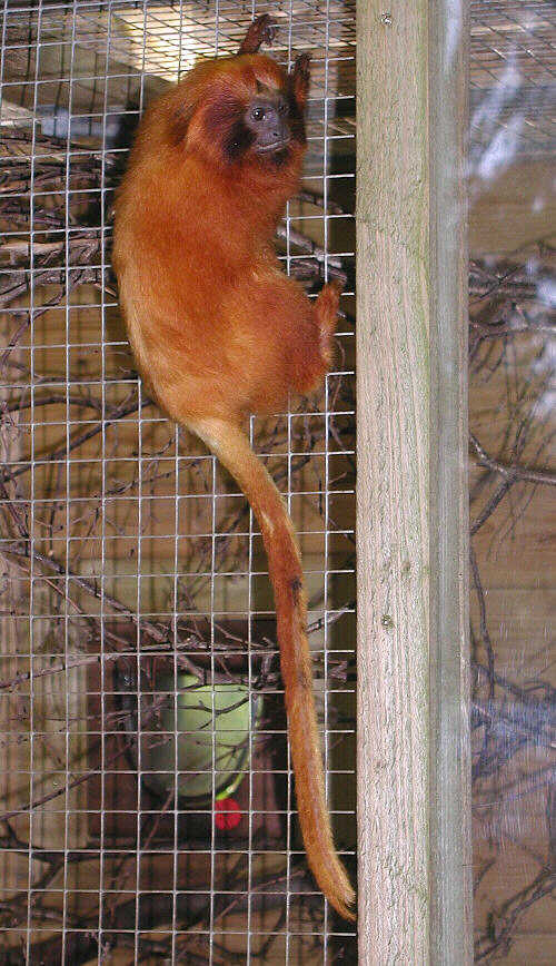 Golden Lion Tamarin monkey (Leontopithecus rosalia) at Paignton Zoo, Devon, England.